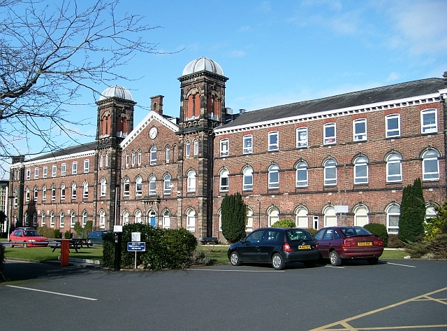 Skiddaw Building, University of Cumbria The University of Cumbria was established in August 2007, but this building on the Fusehill Street Campus is obviously a bit older. It was opened in 1864 as the Carlisle Union Workhouse, and served as a military hospital during two World Wars. In 1938 the Workhouse buildings were converted to a municipal hospital, which became the City General under the NHS. Patient care transferred to the modern Cumberland Infirmary in the late 1990s and the site was taken over by St. Martin's College, one of the amalgamated institutions of the new University. For more information on the history of the Carlisle Workhouse, and many others